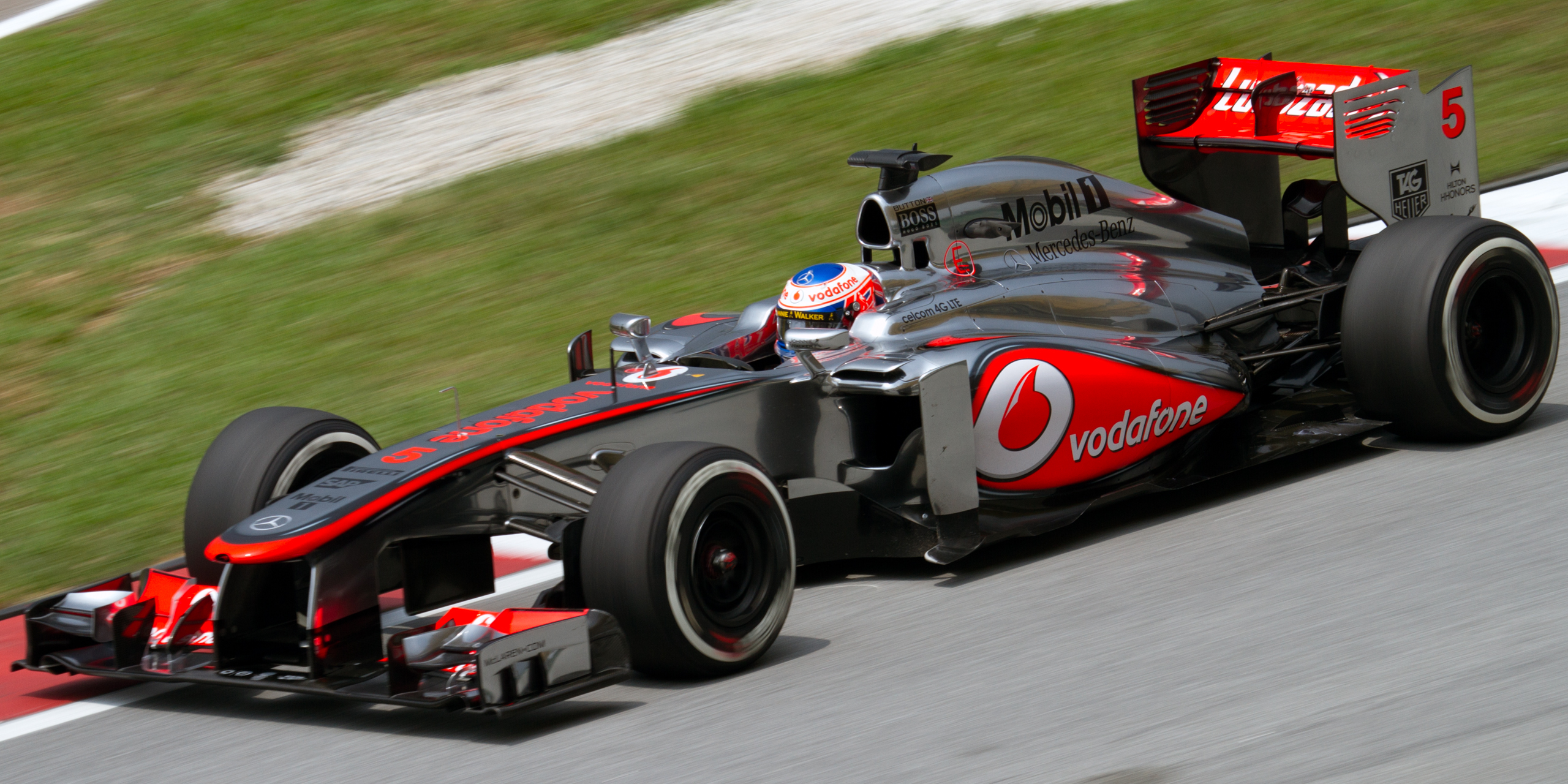 Formula One 2013 Rd.2 Malaysian GP: Jenson Button (McLaren) during the second practice session on Friday.